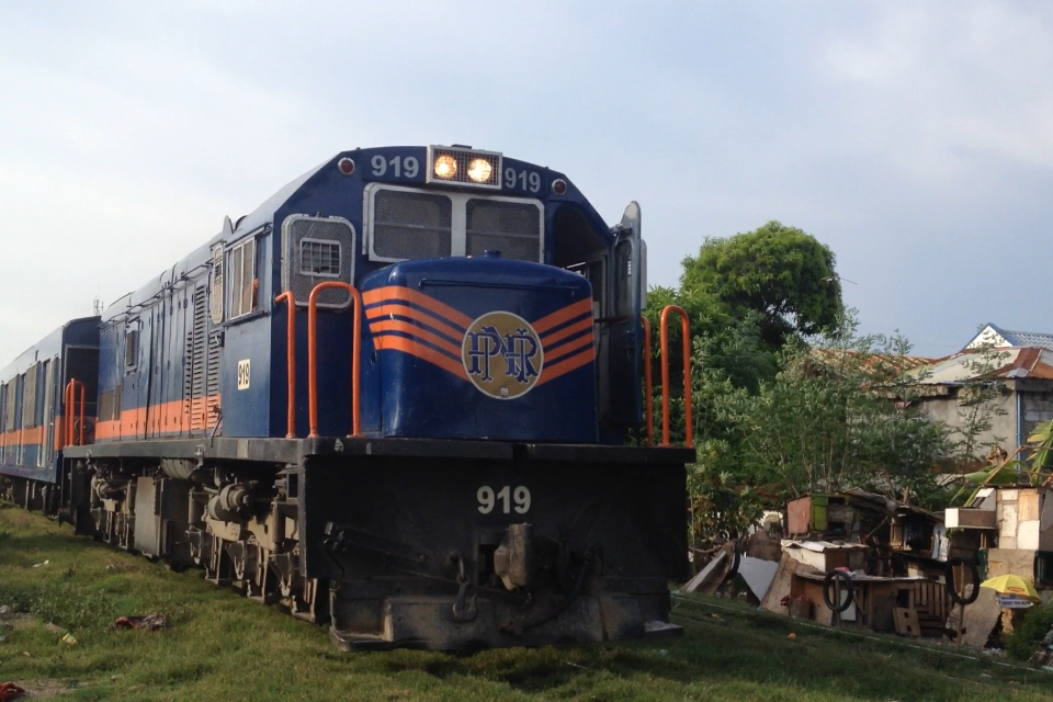 Train crossing a level crossing at Sucat, Muntinlupa City.